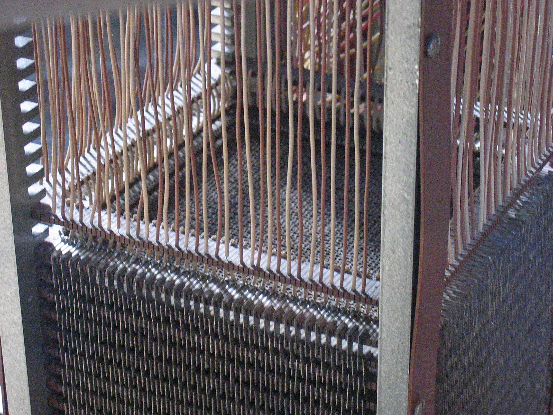 Core planes from Project Whirlwind's core memory unit, as displayed at the Charles River Museum of Industry, Waltham, MA. The rack is labeled "Bank C, Side 4."